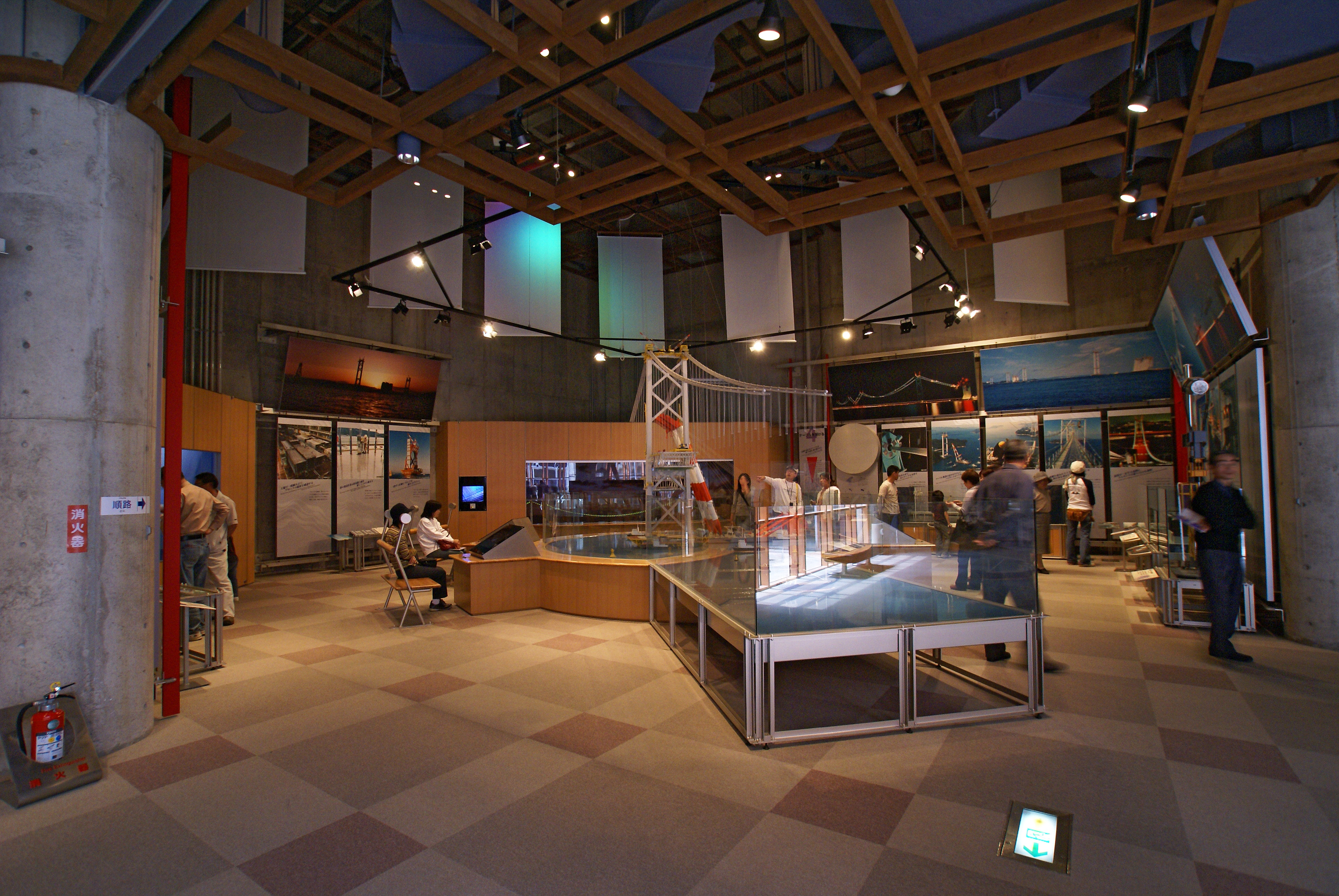 Great Seto Bridge Memorial Hall in Sakaide, Kagawa prefecture, Japan